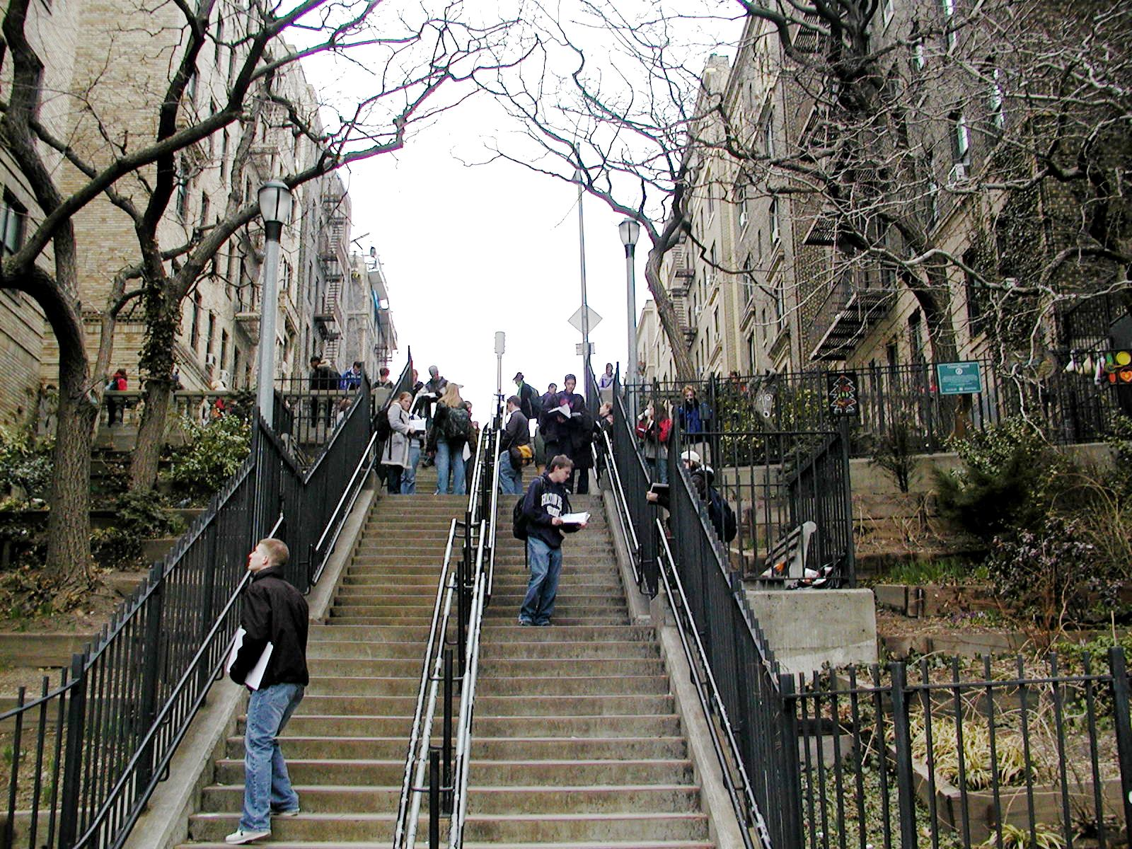 Stairs at southern end of Pinehurst Avenue in the corner of 181st Street in Hudson Heights Manhattan NYC Category:Photographs by User:Petri Krohn